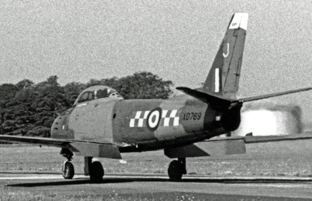 Canadair Sabre F.4 XD769 of 92 Squadron Royal Air Force at RAF Hooton Park in 1955